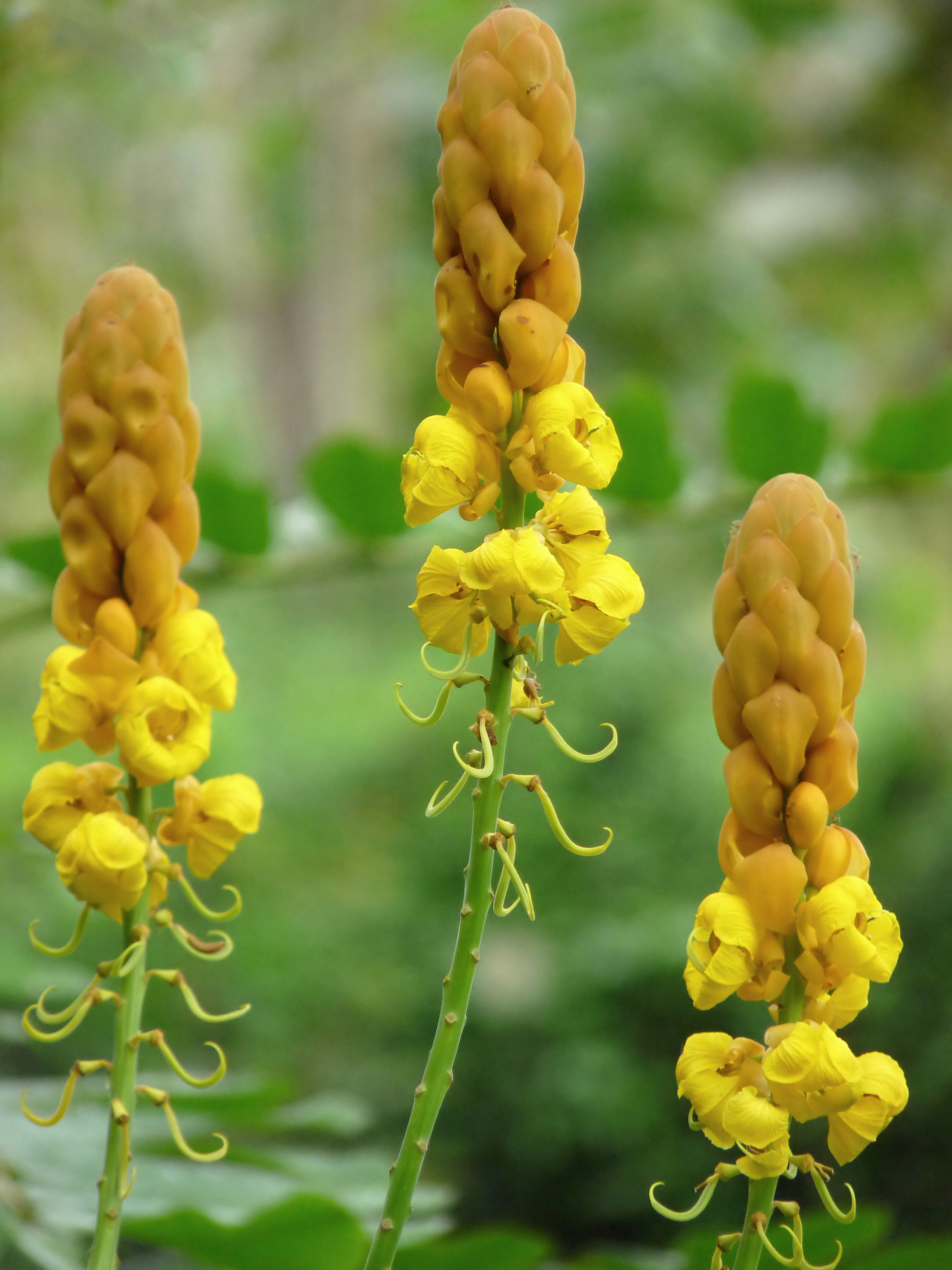 Senna alata, the Candle Bush, is an important medicinal tree as well as an ornamental flowering plants in the subfamily Caesalpinioideae. It also known as a Candelabra Bush, Empress Candle Plant, Ringworm Tree or "candletree". A remarkable species of Senna, it was sometimes separated in its own genus, Herpetica. Senna alata is native to Mexico, and can be found in diverse habitats. In the tropics it grows up to an altitude of 1,200 meters. It is an invasive species in Austronesia. In Sri Lanka this is use an ingredient of Sinhala traditional medicine. The shrub stands 3–4 m tall, with leaves 50–80 cm long. The inflorescence looks like a yellow candle. The fruit shaped like a straight pod is up to 25 cm long. Its seed are distributed by water or animals. The large leaves are bilateral - symetrical opposed and fold together at night. The fruit is a pod, while the seeds are small and square. The leaves contain chrysophanic acid. The leaves are reported to be sudorific, diuretic and purgative, being used in the same manner as senna. The leaves are commonly used for ringworm and other skin diseases. The leaves in decoction are also used to treat bronchitis and asthma. Because of its anti-fungal properties, it is a common ingredient in soaps, shampoos, and lotions in the Philippines. Previously published at Seven Golden Candlesticks.